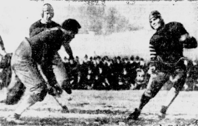 Photo from 1920 of the Georgia Bulldogs vs. the Alabama Crimson Tide. Artie Pew is attempting to tackle Riggs Stephenson. Behind Pew is Puss Whelchel.